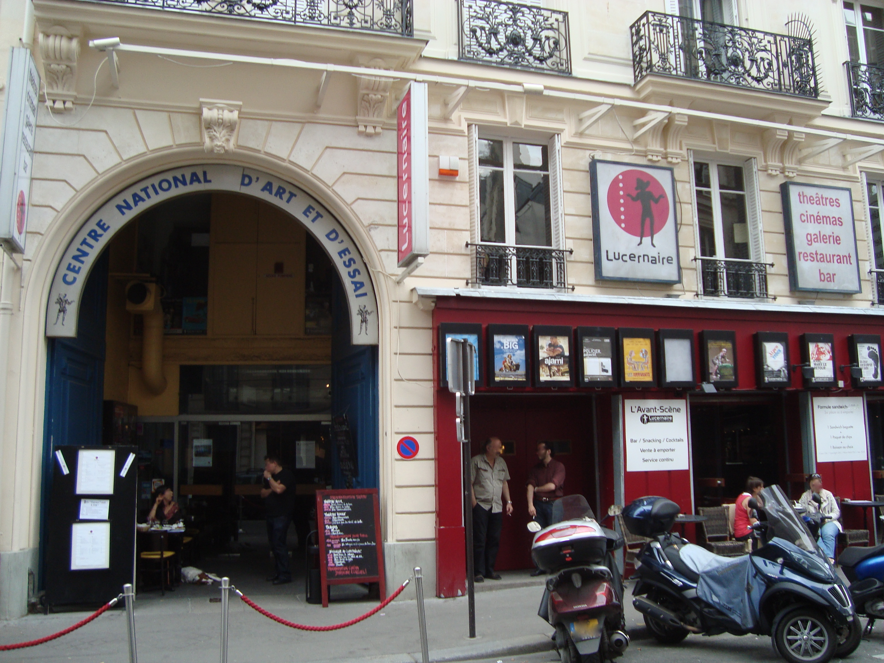 The cultural center Le Lucernaire, rue Notre-Dame-des-Champs in Paris